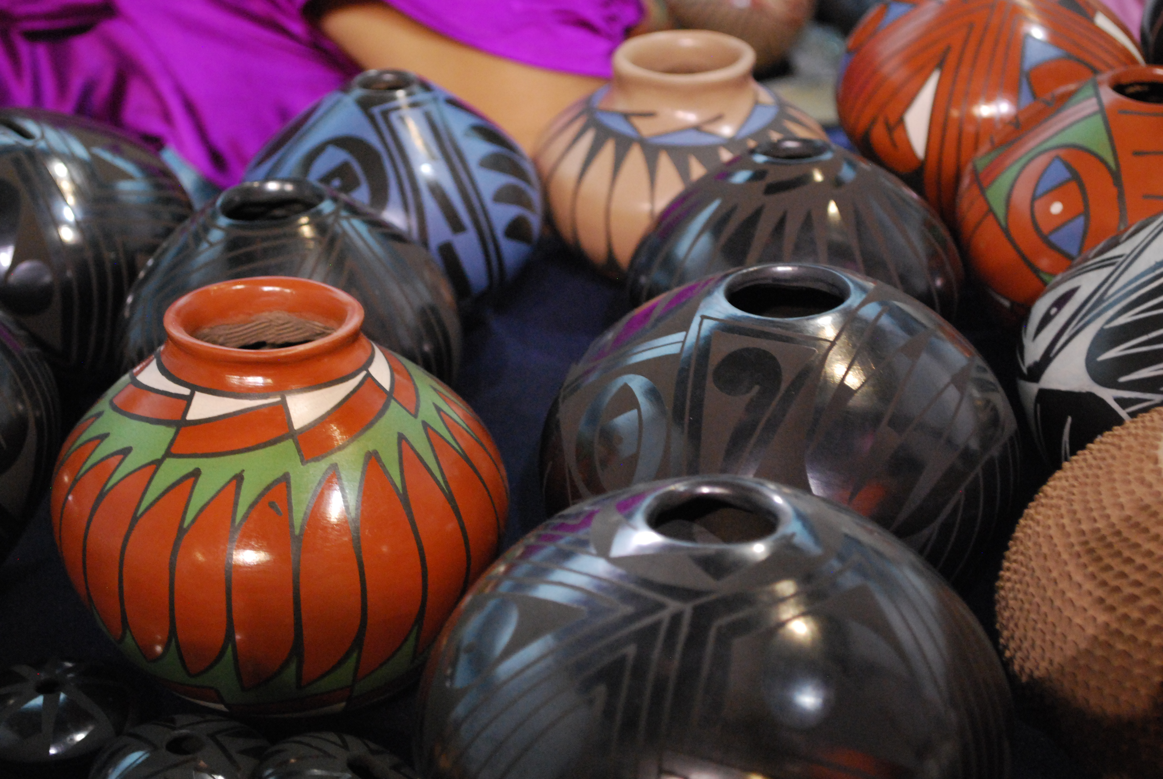 Examples of Mata Ortiz pottery from Chihuahua on display at the 2010 FONART exhibition in Mexico City